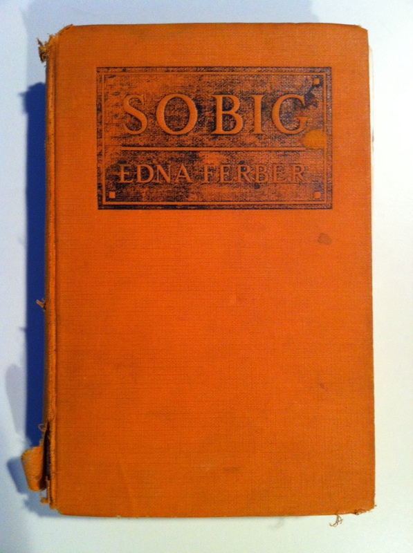 Cover of the book 'So Big' by Edna Ferber. My copy, first edition. Published by Grosset & Dunlap, 1924. Uploaded for the purpose of adding to the Wikipedia article for said book.